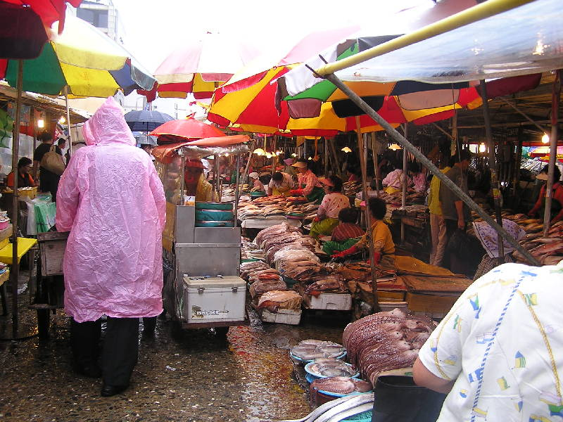 Street in Jagalchi fish market in Busan, South Korea